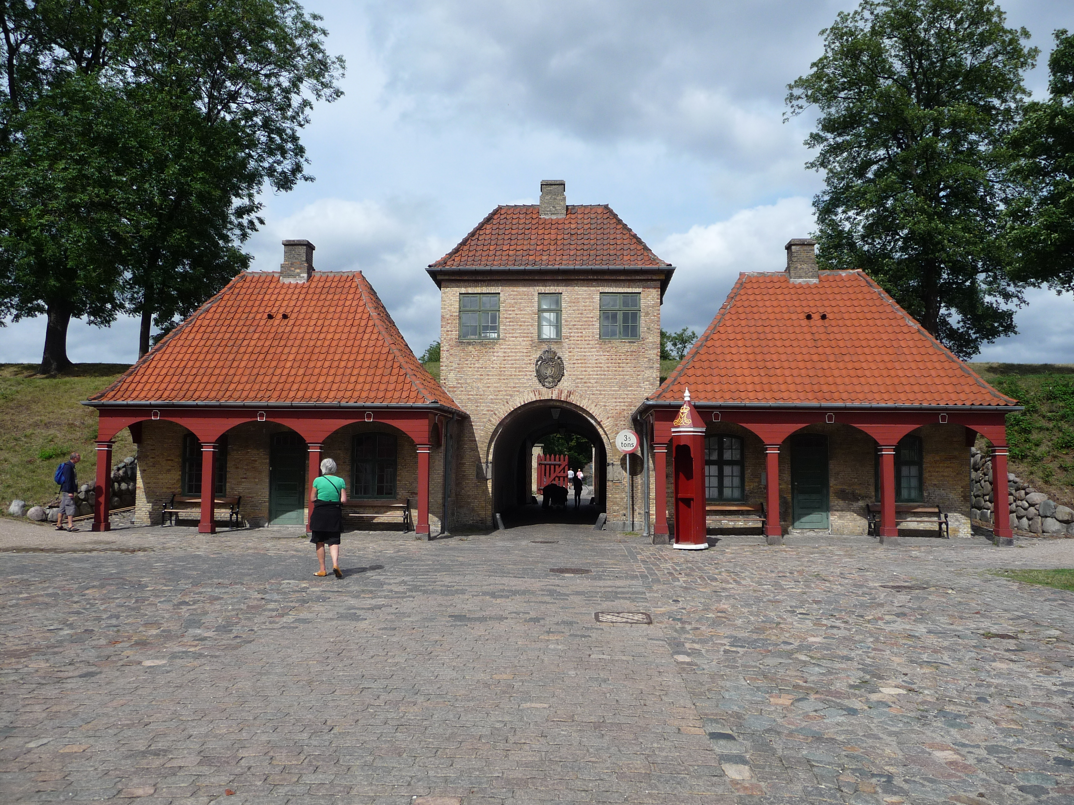 The Norway Gate (Norgesporten) at Kastellet in Copenhagen, Denmark